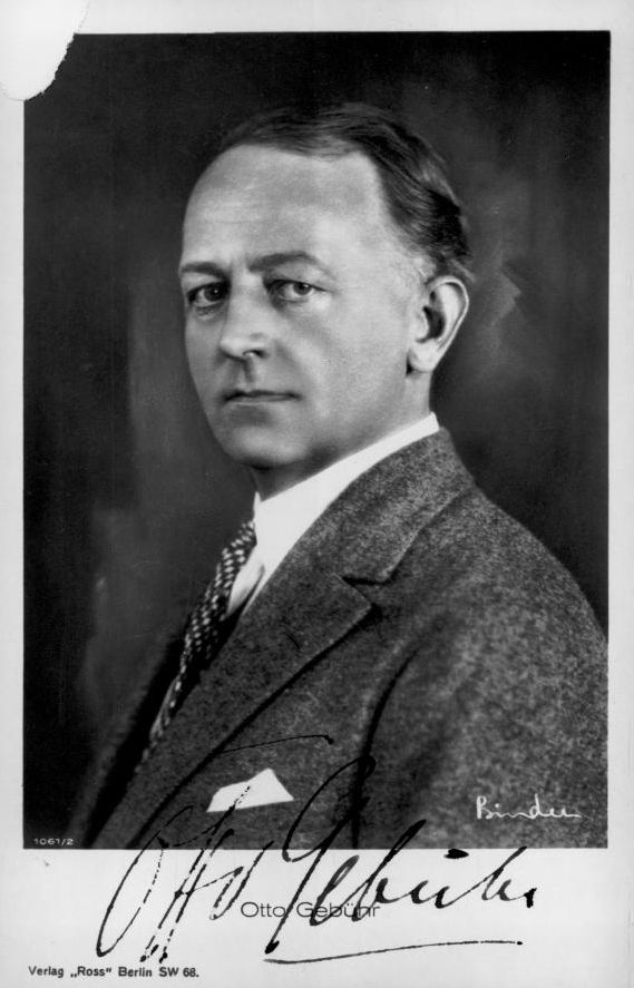 German actor Otto Gebühr, by Alexander Binder